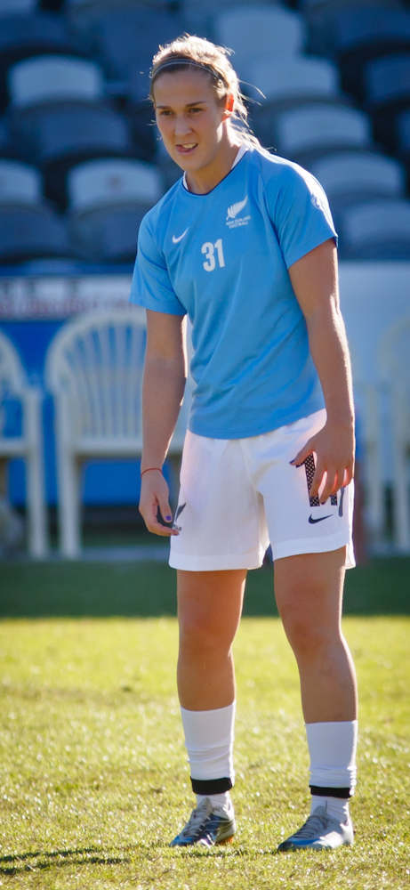 Kirsty Yallo playing for the New Zealand women's national football team against Australia.